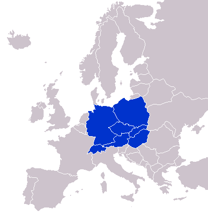 Map of Central Europe based on the definition in Columbia Encyclopedia (article title:Europe)